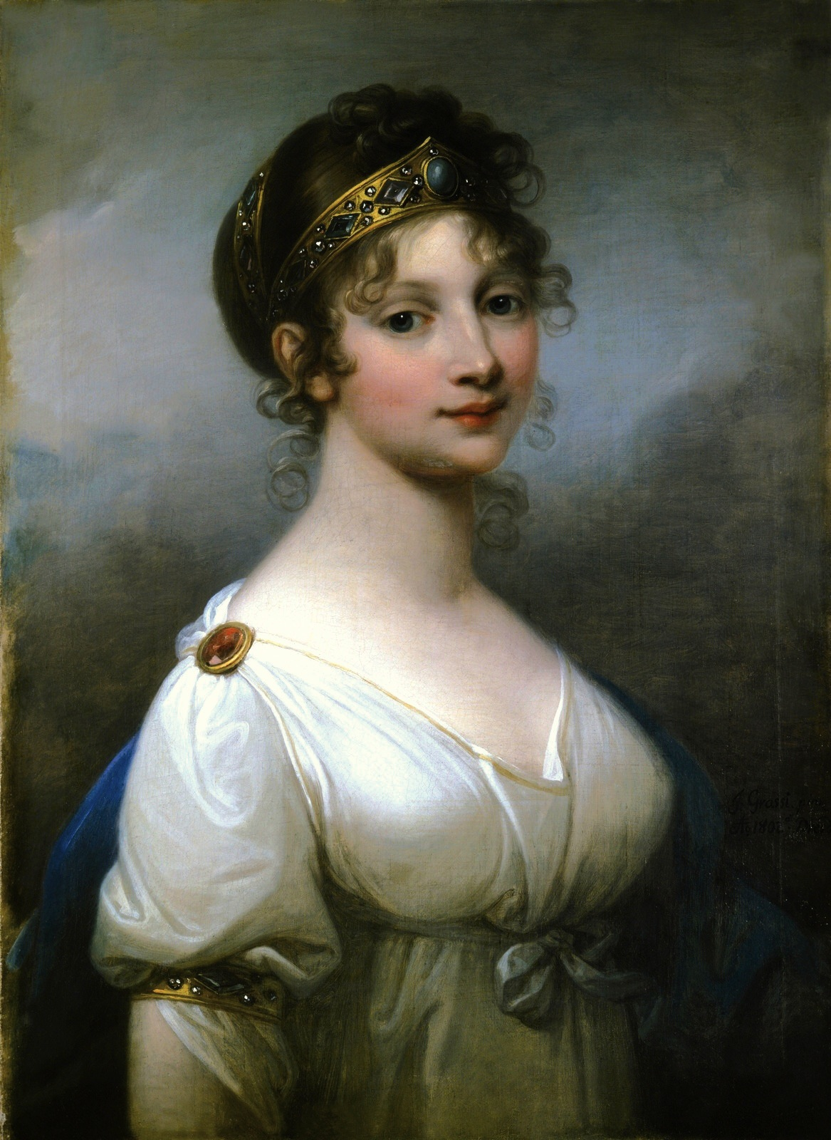 This portrait is one of the most famous depiction of Queen Louisa